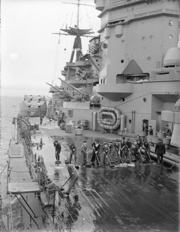 Sailors washing down the decks on the British battleship HMS Rodney.